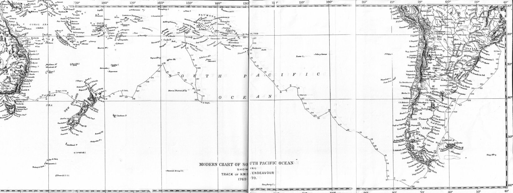 This is a 1893 chart of the track taken by the H.M.S. Endeavour during Lieutenant (later Captain) James Cook's first voyage to the Pacific Ocean.